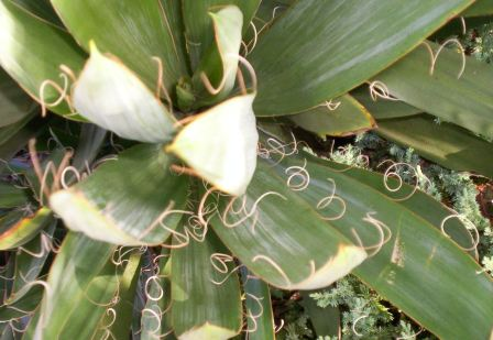 Authors own specimen